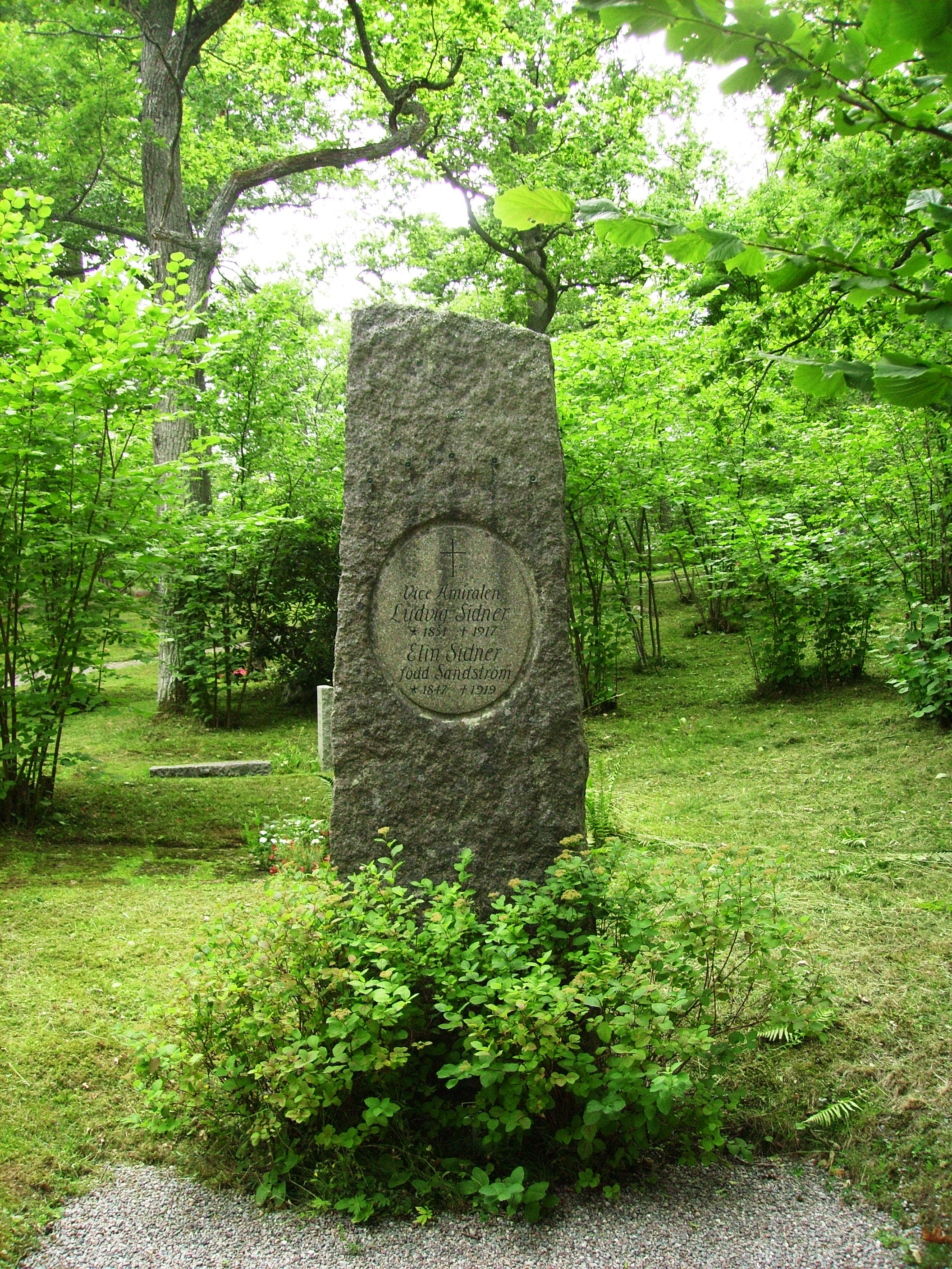 Picture of Ludvig Sidner's grave at Djursholms burial ground